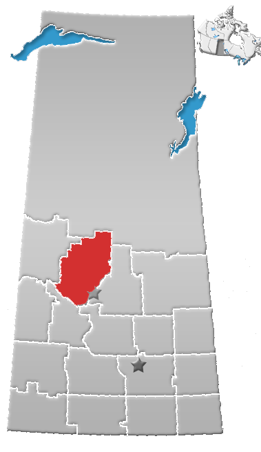 Saskatchewan census area No. 16